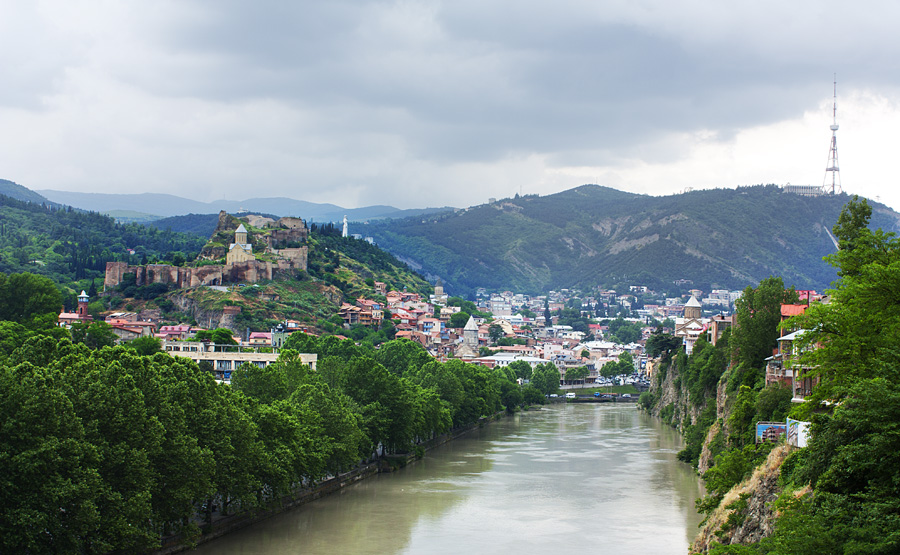 Tbilisi, Georgia — View of Tbilisi